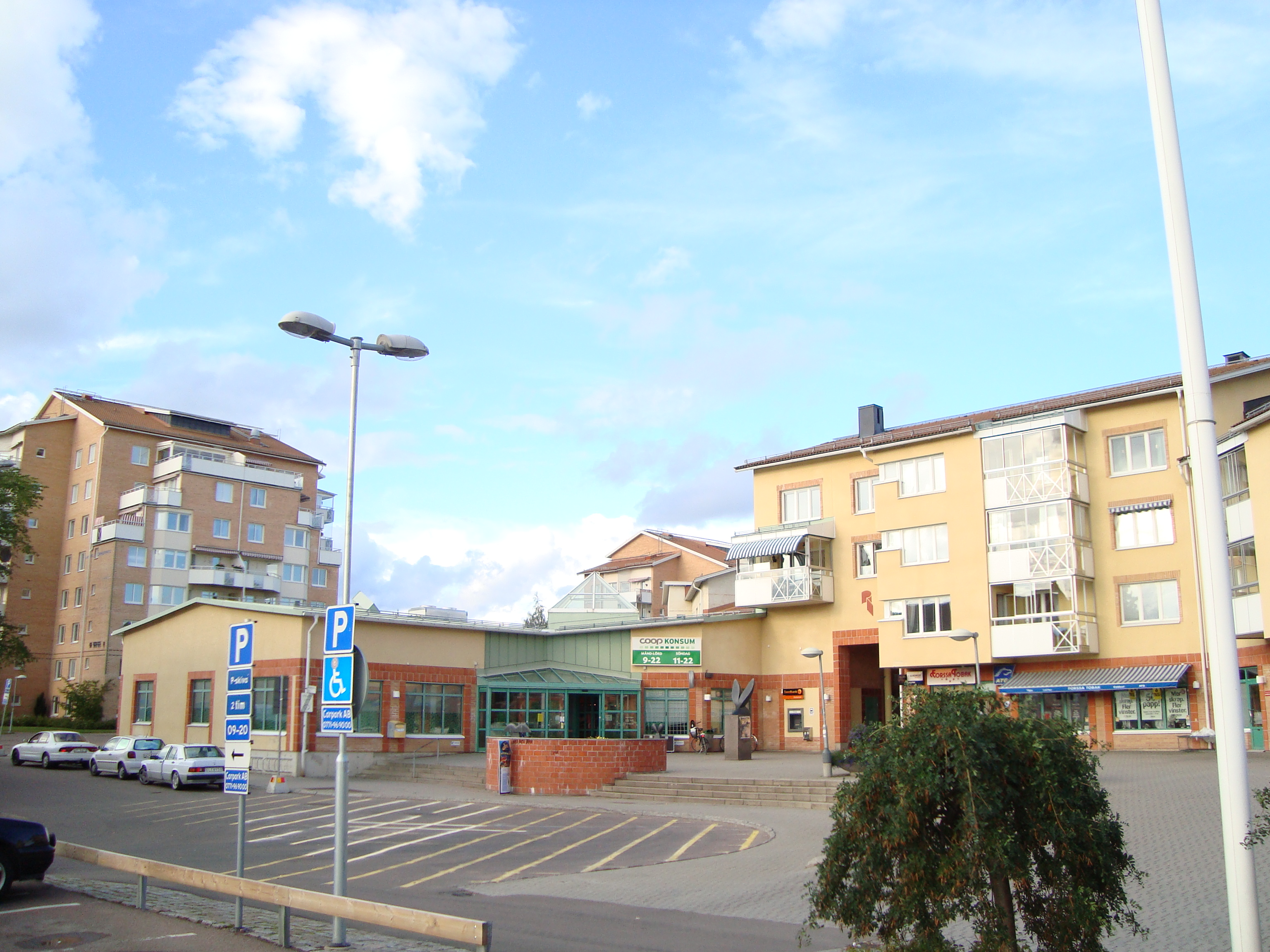 Forssa, Borlänge, Sweden